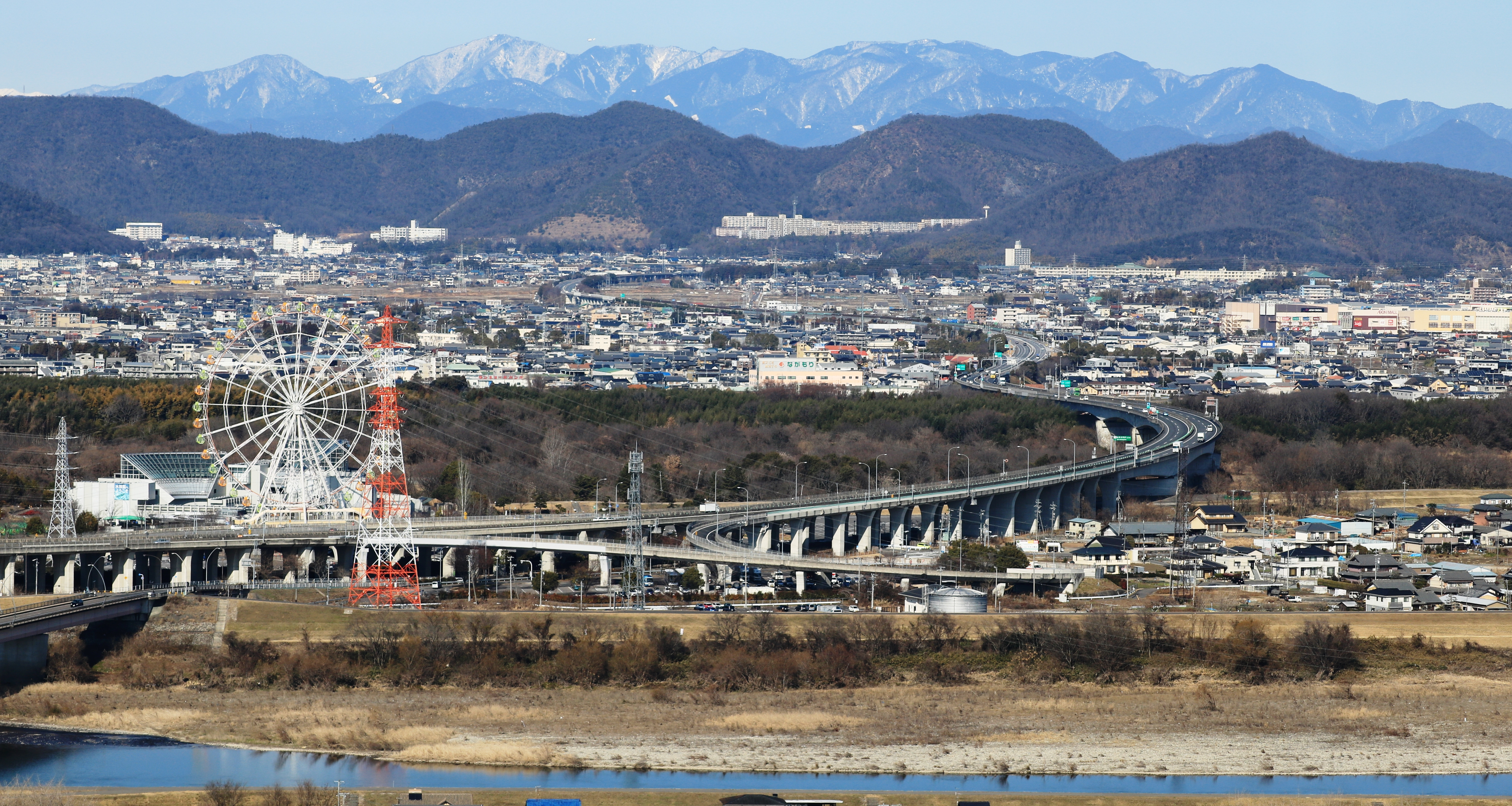 Tokai-Hokuriku Expressway around Gifu-Kakamigahara Interchange seen from Twinarch138 in Gifu prefecture, Japan.